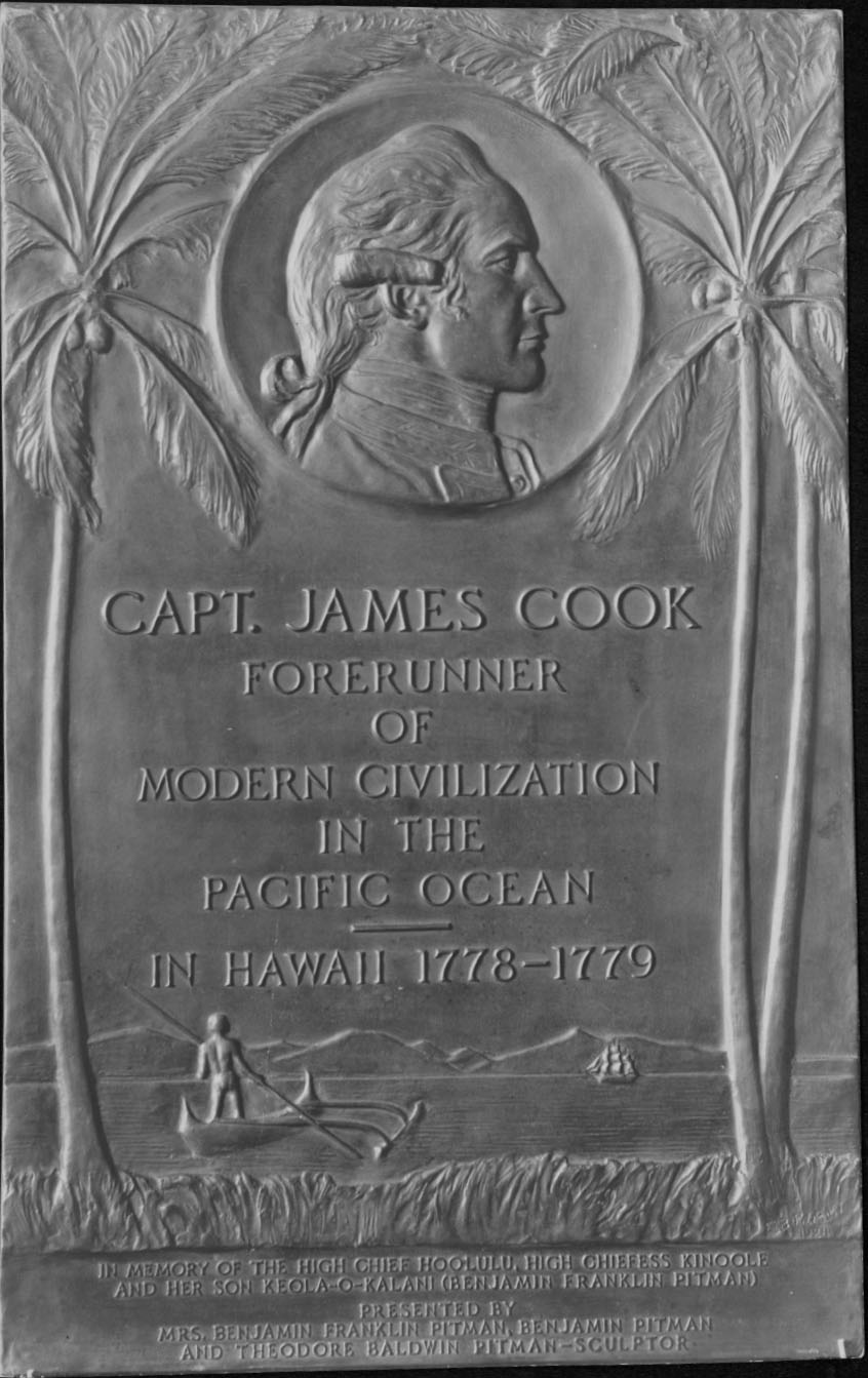 Pitman Tablet Commemorative of Captain James Cook. Inscription: "Capt. James Cook Forerunner of Modern Civilization in the Pacific Ocean. In Hawaii 1778-1799. In Memory of the High Chief Hoolulu, High Chiefess Kinoole and her son Keola-O-Kalani (Benjamin Franklin Pitman). Presented by Mrs. Benjamin Franklin Pitman, Benjamin Pitman and Theodore Baldwin Pitman—Sculptor." Unveiled at Archives of Hawaii Building and officially accepted by Governor Lawrence McCully Judd on February 14, 1930. Designed and executed by Theodore Pitman, of Boston. Presented to the Territory of Hawaii in memory of Benjamin Keoia-o-ka-lani Pitman by the Pitman family, at Honolulu, on August 17, 1928. A description of the plaque from Almira Hollander Pitman's After Fifty Years: An Appreciation, and a Record of a Unique Incident (1931): "The sculptor had achieved a marvelous result, and his inspiration was the moment Captain Cook, in the Resolution, was skirting the shore of Kauai. Out at sea was a Hawaiian outrigger canoe, and in it, a paddle in hand and standing, was an Hawaiian, his back to the beholder, looking toward the strange ship from abroad. In the background are the shores and mountains and valleys of Kauai. Flanking this scene, for artistic embellishment were two lofty cocoanuts. Between the branches of the trees is a medallion of Captain Cook, starrtling likeness that seems to change live as light rays travel over the surface" (Pitman 1931, p. 144)